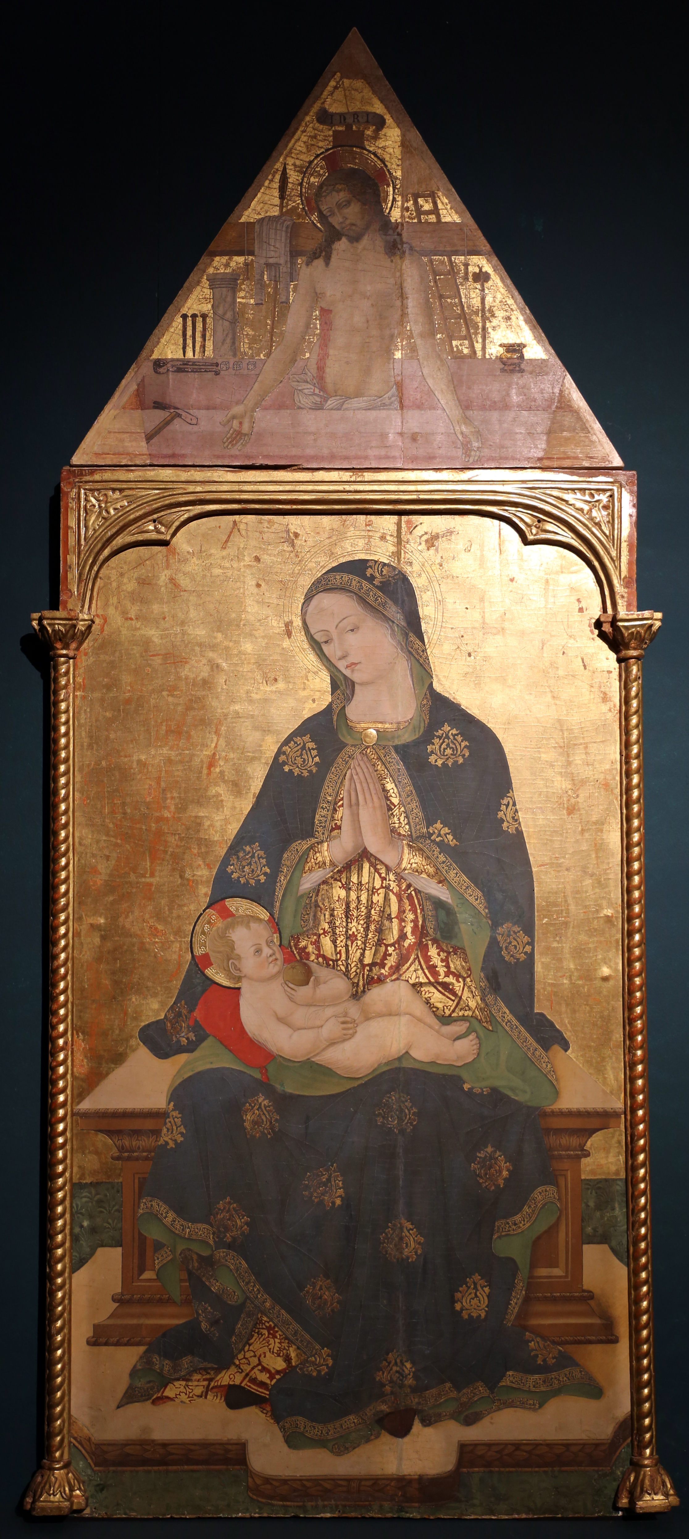 Misericordia exhibition in Senigalllia (2016)